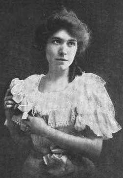 Nora Dunblane, from a 1901 publication. A young white woman with upswept dark hair, wearing a lacy ruffled bodice. She has a cleft chin.